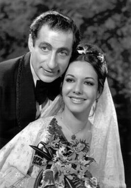 Irith MeiryI